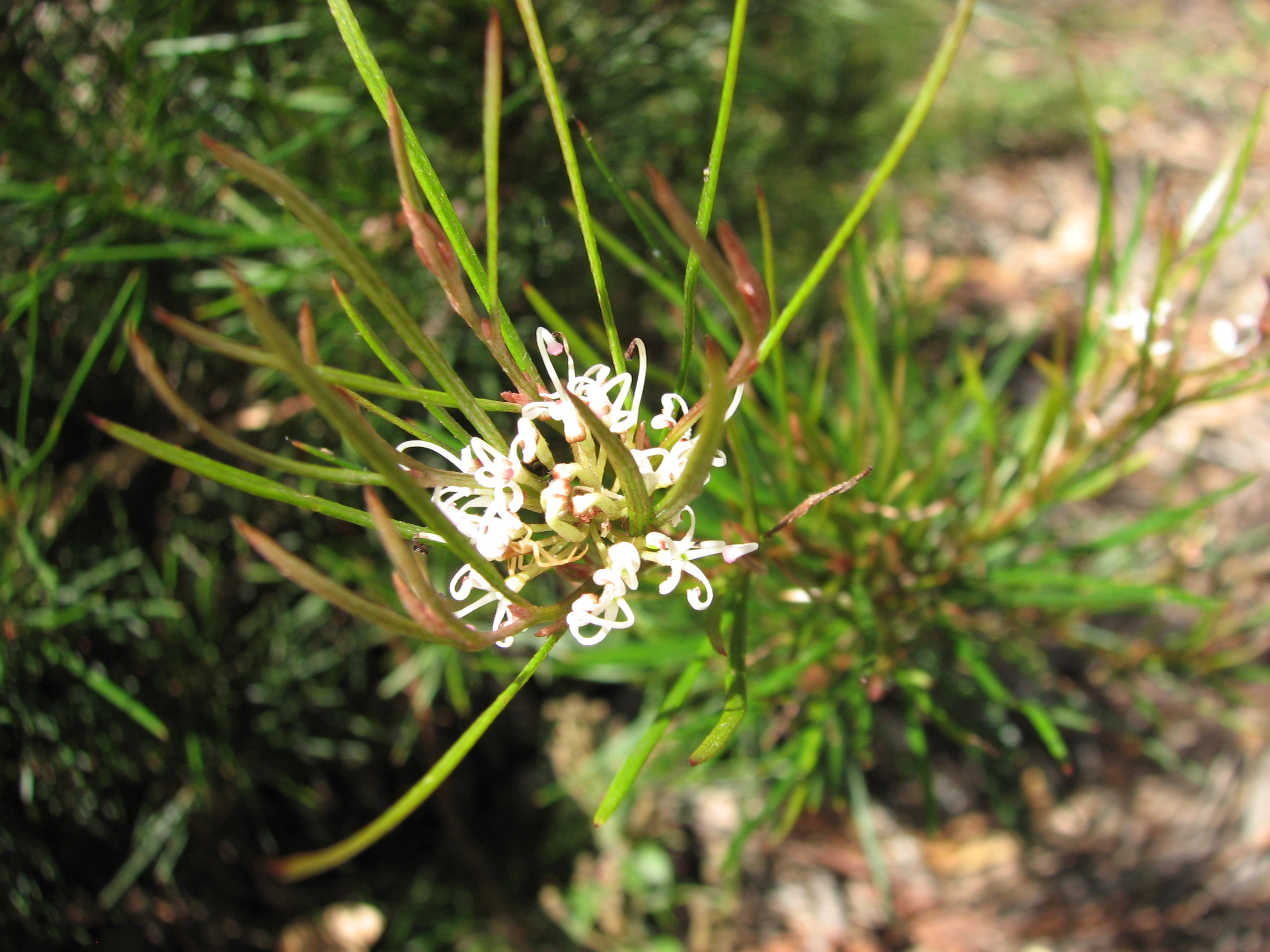 Grevillea neurophylla subsp. fluviatilis (cultivated, labelled) Royal Botanic Gardens Melbourne, Australia